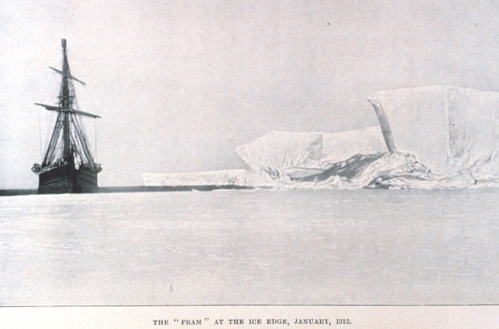 The "Fram" at the ice edge, January 1912